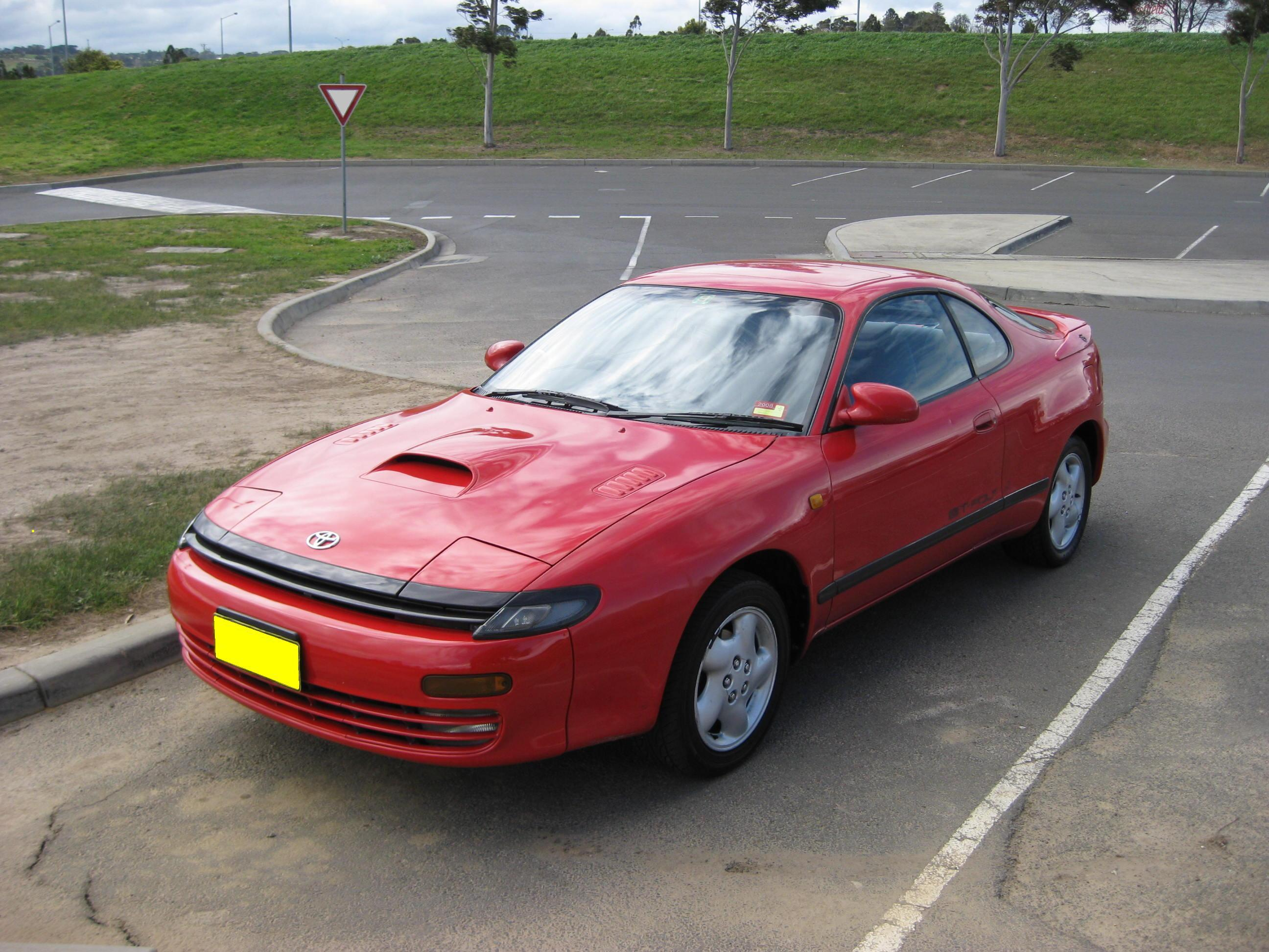 1990 Toyota Celica GT-Four A (ST185) shown in Super Red (colour code 3E5), Japanese Model with factory optional sunroof.